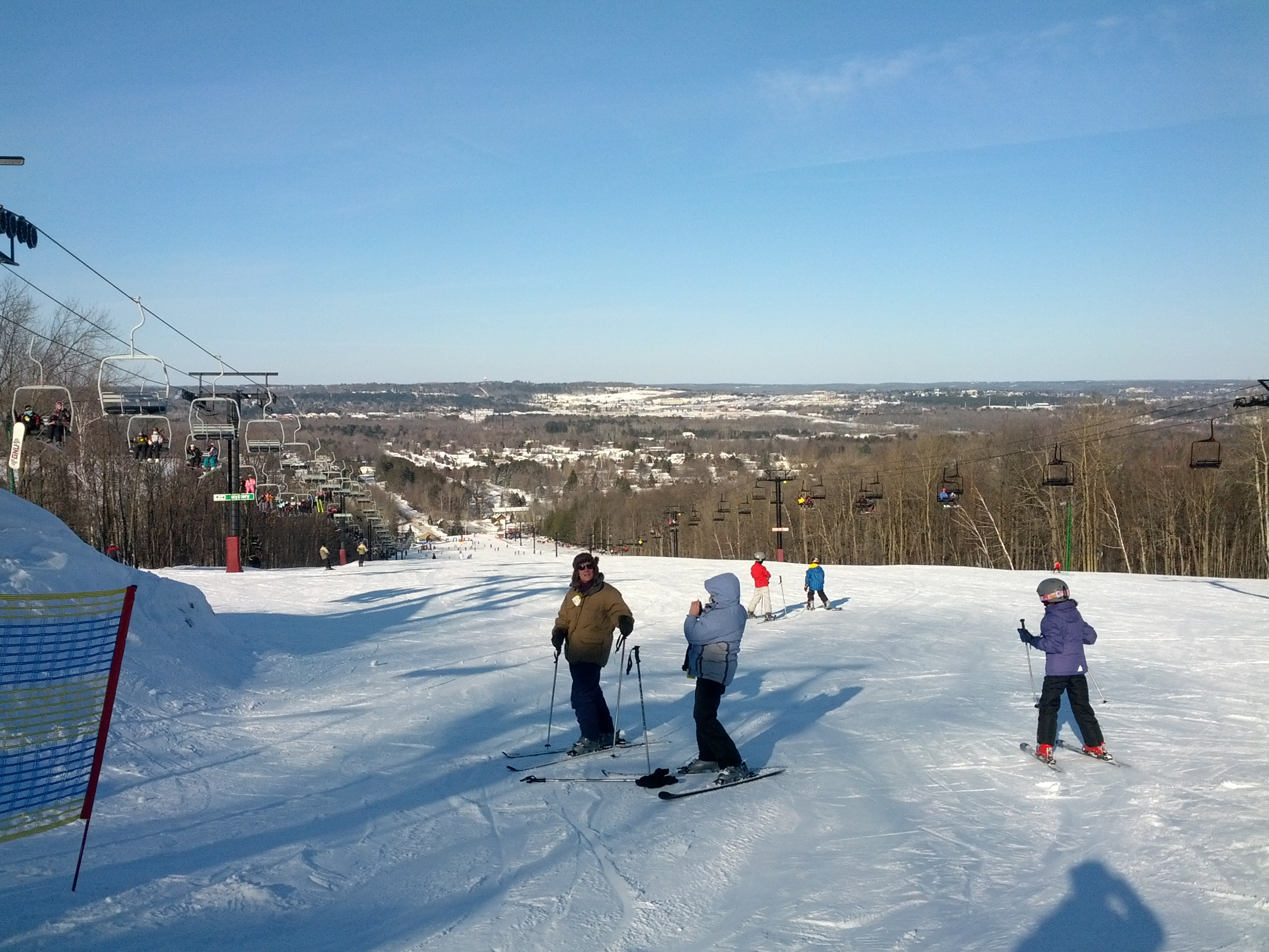 Granite Peak Ski Area, in Rib Mountain State Park, near Wausau, Wisconsin, United States.